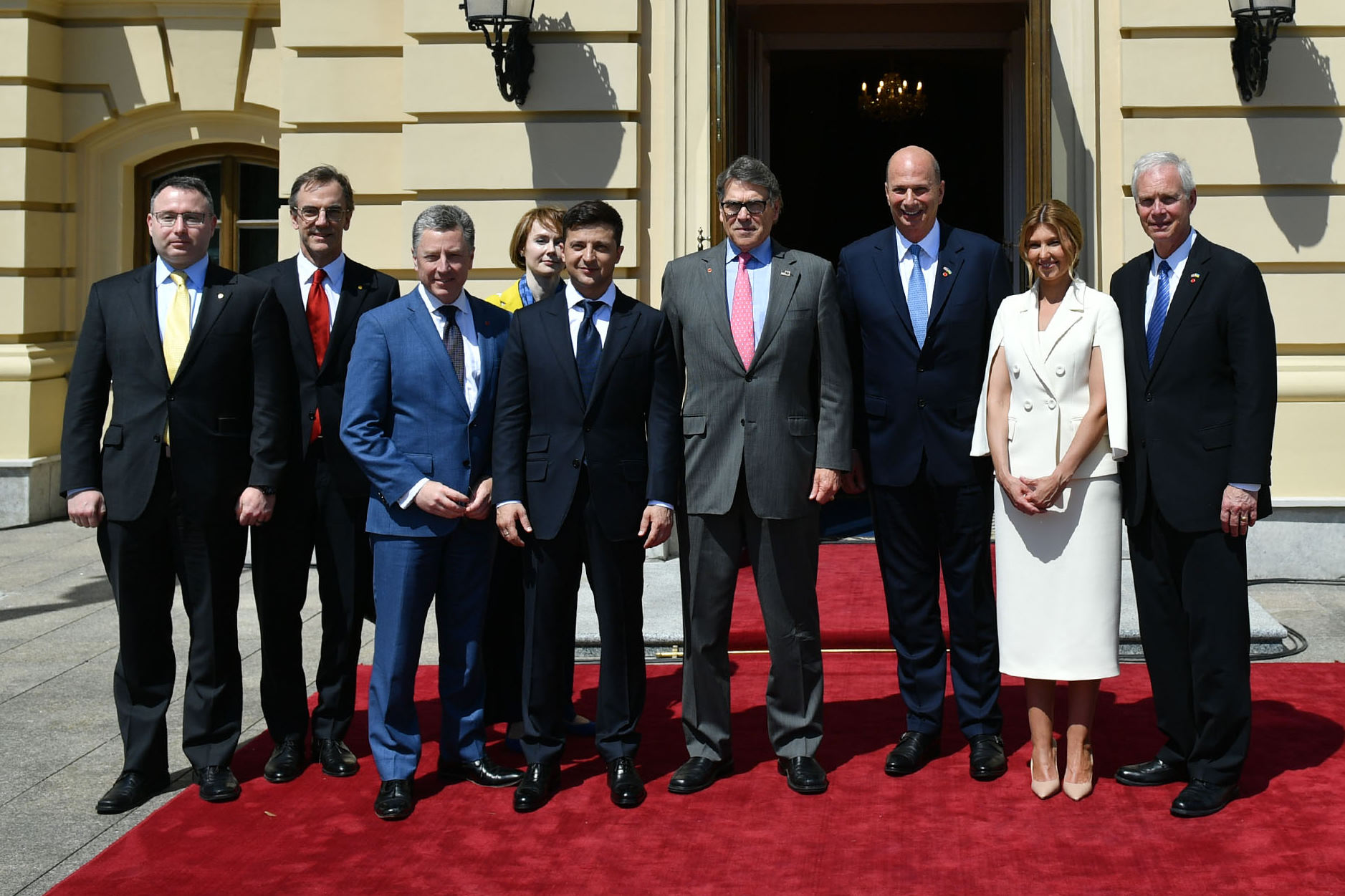 Volodymyr Zelensky presidential inauguration, 20th May 2019 (pictured, from left to right): U.S. Lt. Col. Alexander Vindman, U.S. Acting Chargé d'Affaires Joseph Pennington, U.S. Ambassador Kurt Volker, Ukraine Deputy Minister of Foreign Affairs Olena Zerkal, Ukraine President Volodymyr Zelensky, U.S. Energy Secretary Rick Perry, U.S. Ambassador to E.U. Gordon Sondland, First Lady Olena Zelenska, U.S. Senator Ron Johnson (R-WI).